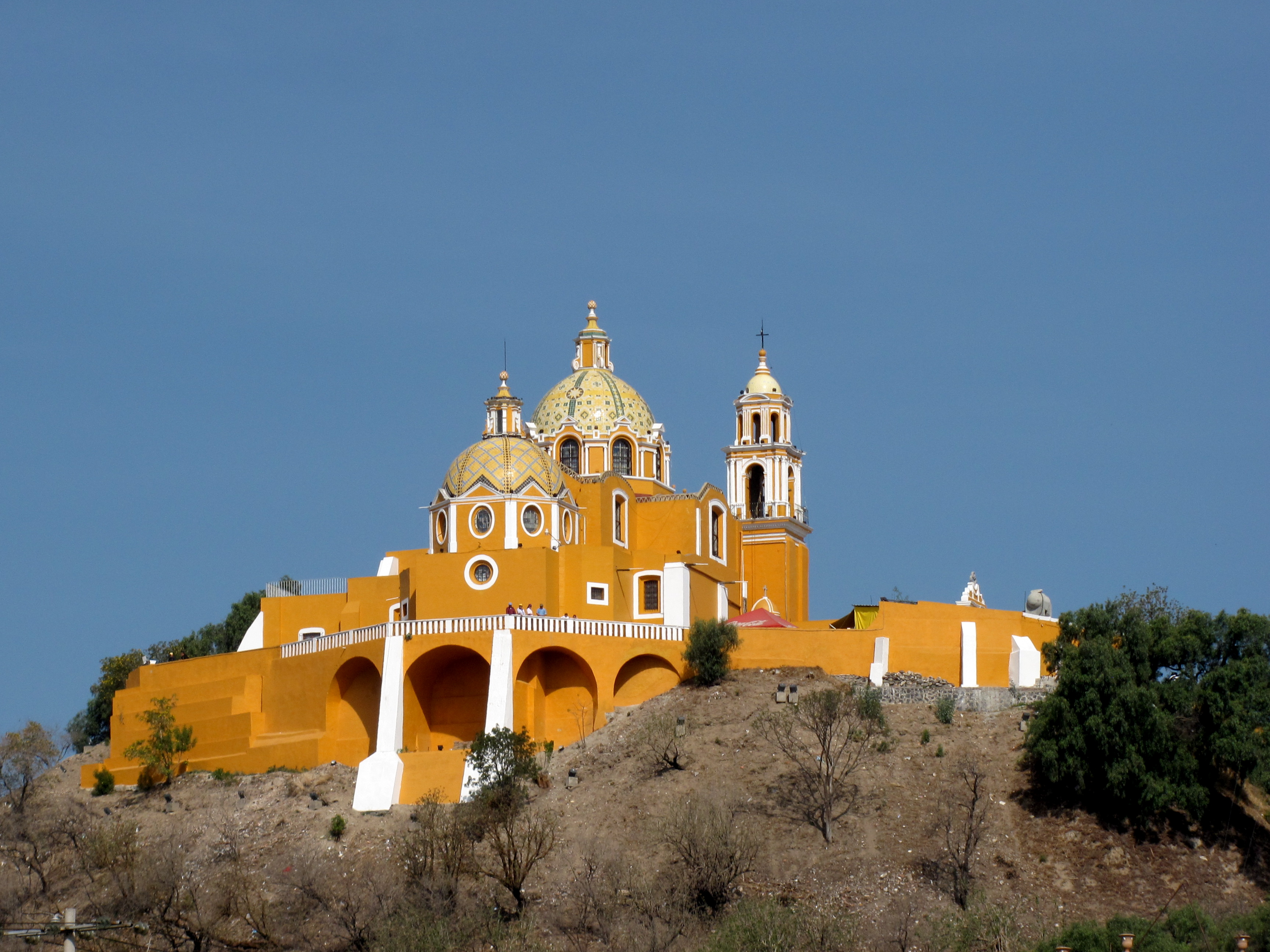 Nuestra Señora de los Remedios Church, Cholula, Puebla, Mexico